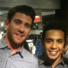 Bryan Greenberg and Victor Rasuk